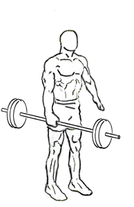 an exercise of lower back and forearm